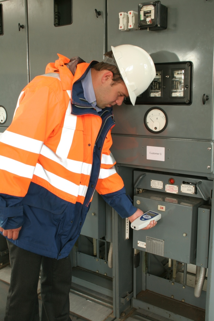 Engineer checking for Partial Discharge using a combined TEV and Ultrasonic portable measuring device